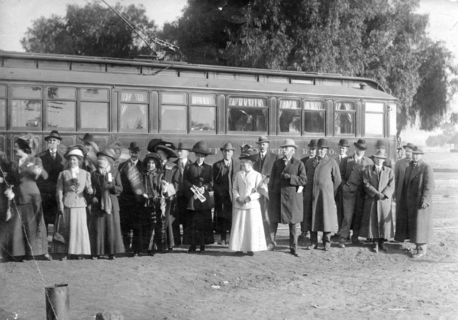 The first "Red" Car over to North Hollywood, December 16, 1911, Van Nuys Line. Far right: Fred Weddington who negotiated to get the line in the Valley; 9th from right: Wilson C. Weddington. The train behind was Huntington's special car. Black and white photograph. 5 x 7 in.